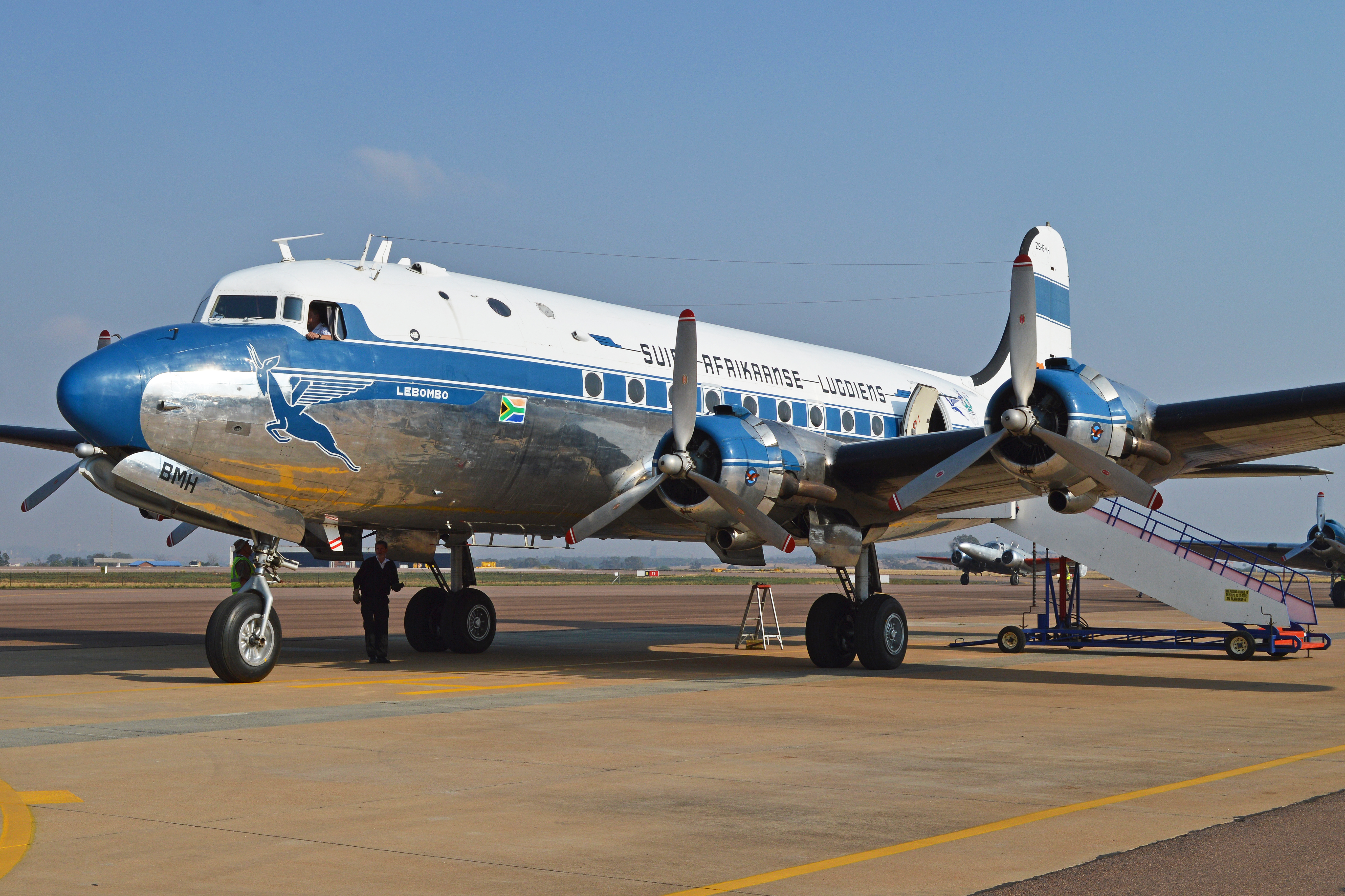 Our 'ship' for the flight out from Rand was 'ZS-BMH', c/n 43157. 'BMH' was the very last DC-4 built, in August 1947. By that time Douglas production had moved to the DC-6 and when South African Airways placed a further order for DC-4s, Douglas were no longer producing DC-4 noses, so this aircraft was built with, and still retains, a DC-6 nose. After SAA service it then flew for the South African Air Force as '6905'. On retirement it went to the South African Airways Historic Flight, who still operate it today. She is seen on the ramp after arriving at the 2014 Waterkloof Airshow, South Africa. 20-9-2014